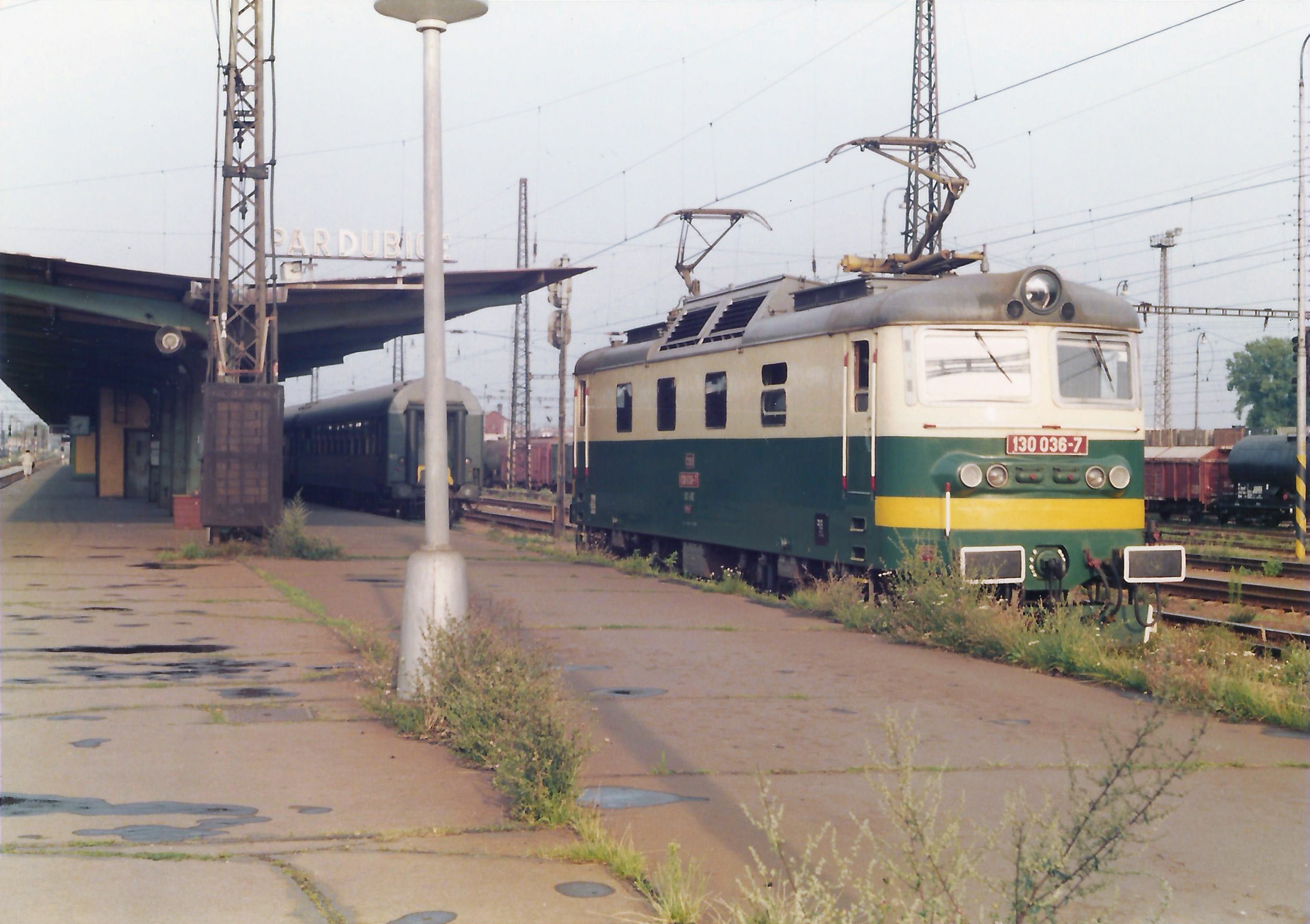 130 036-7 (E 479.0), Pardubice hlavní nádraží 1991 (Czechoslovakia).